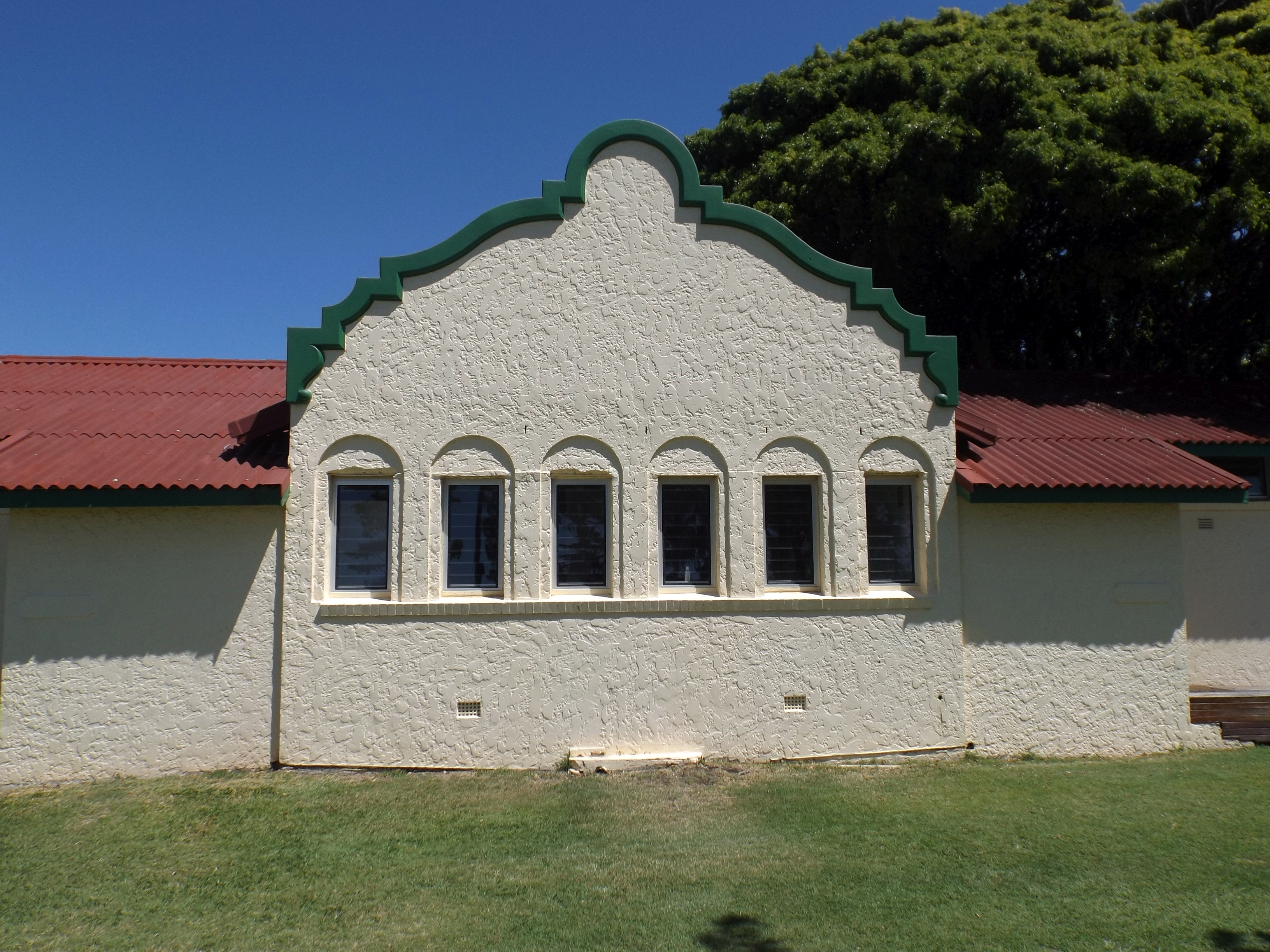 Photo of the Southport Bathing Pavilion at Southport, Gold Coast City, Queensland, Australia.